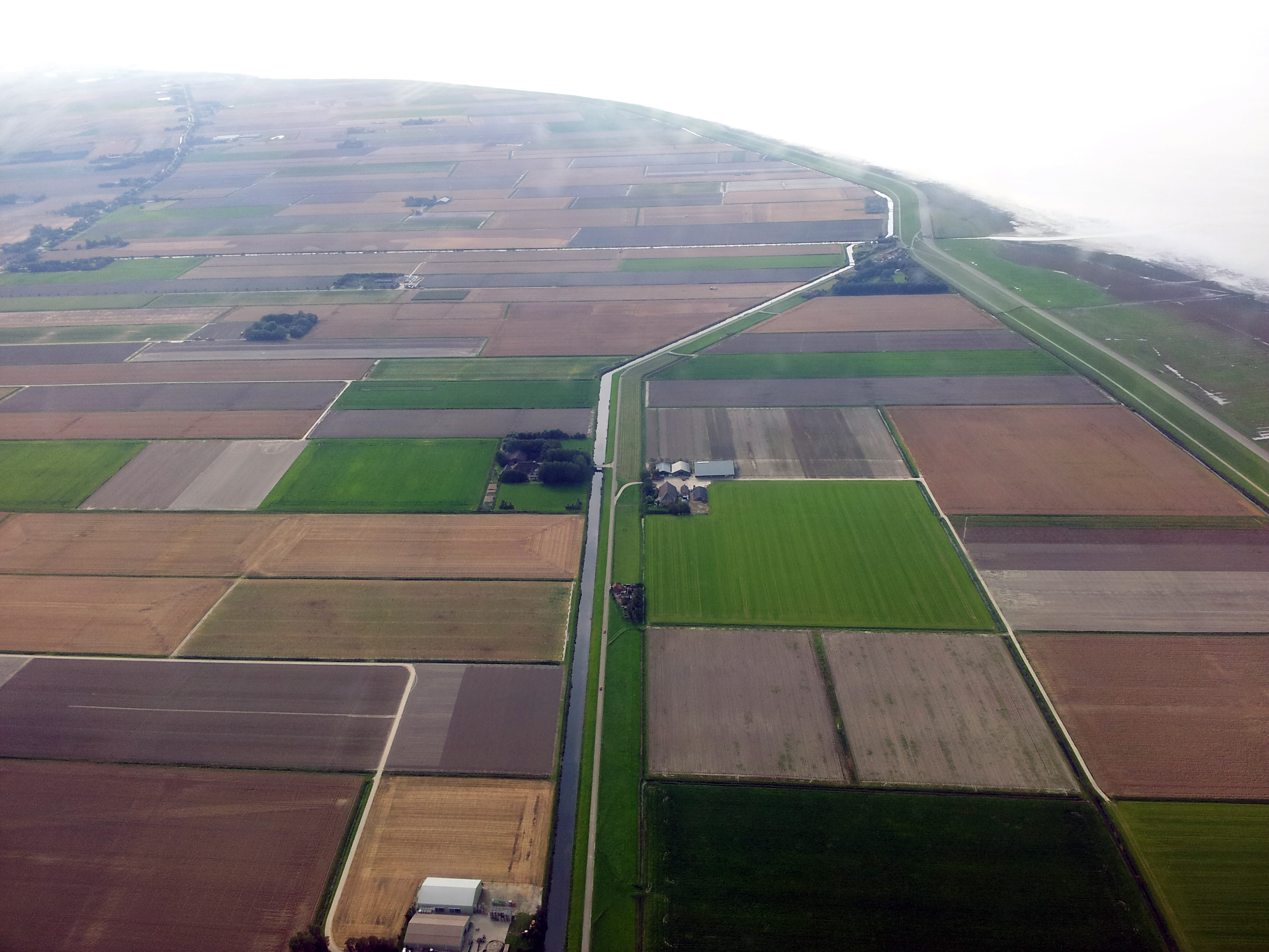 Own image taken from plane